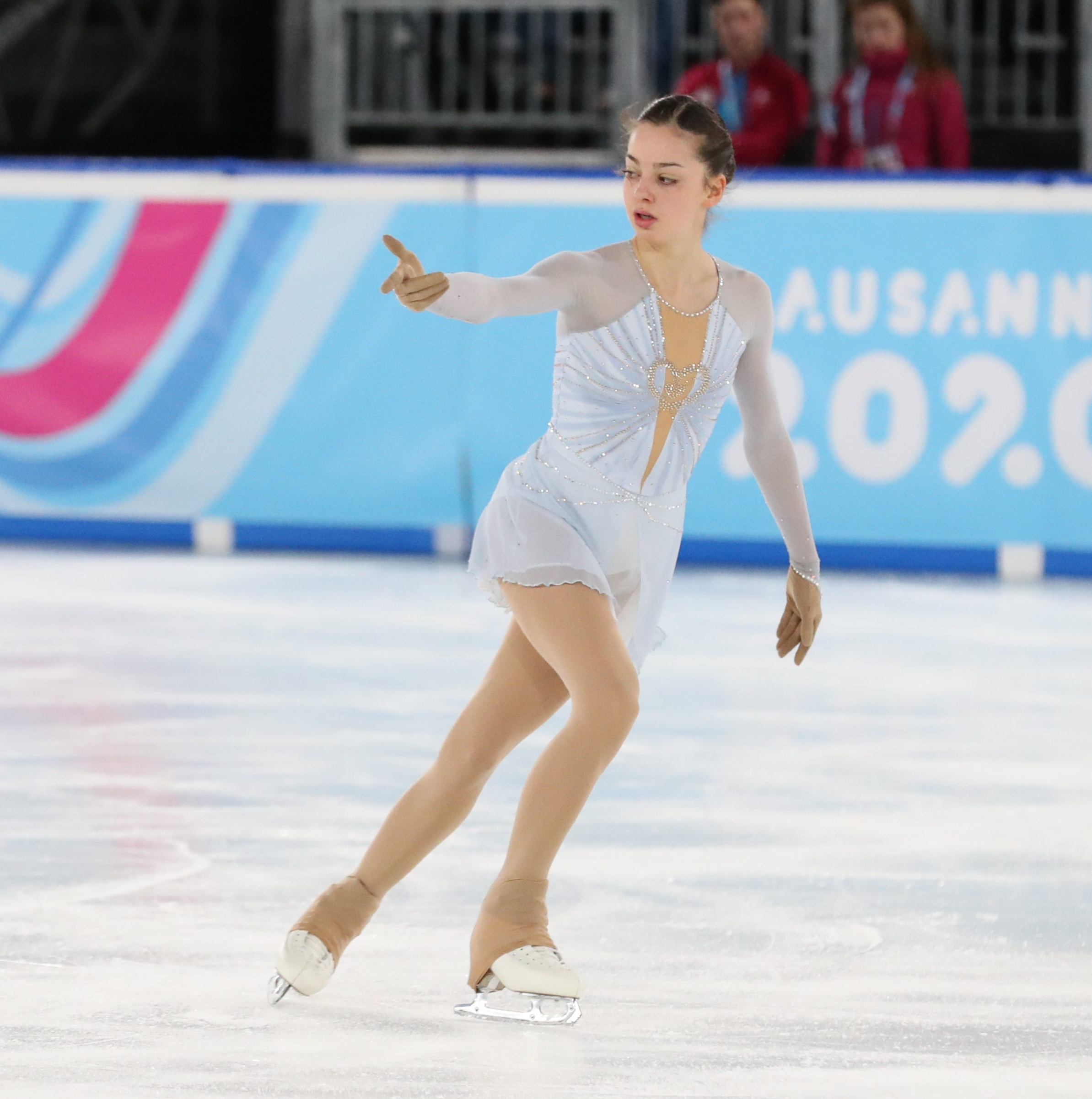 Women Single Figure Skating Short Program at the 2020 Winter Youth Olympics in Lausanne